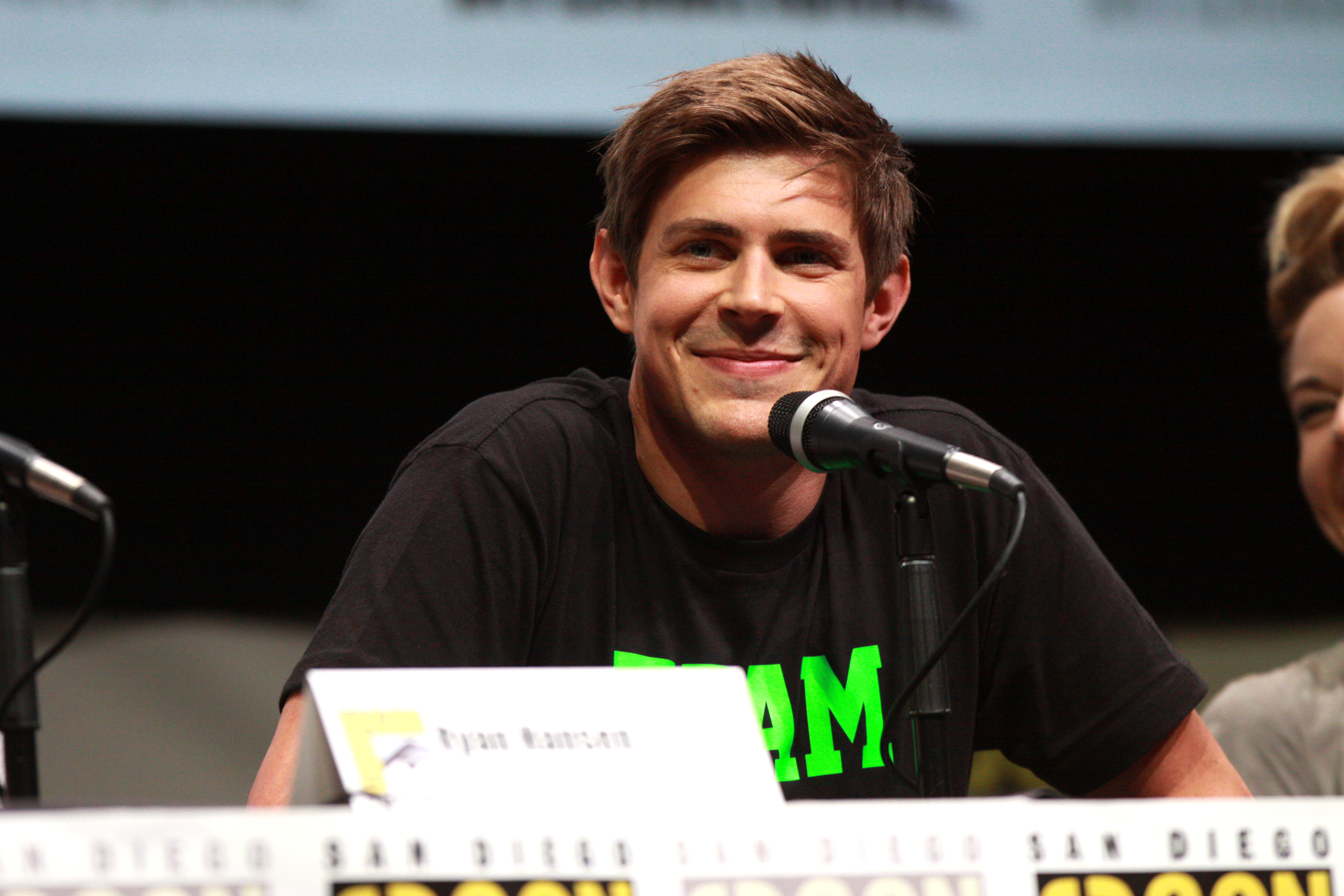 Lowell at San Diego Comic Con International in 2013